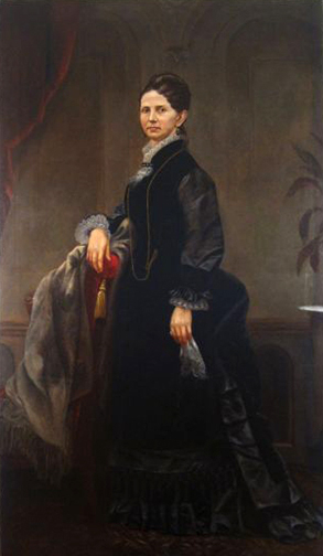 Portrait of Lovina McCarthy Streight (1830-1910), “The Mother of the 51st Indiana Regiment", by Julia Cox (1880)